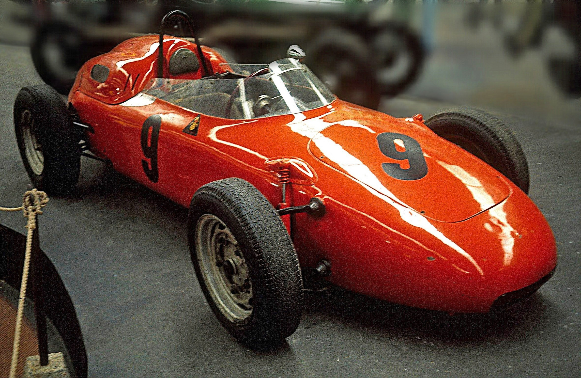 Porsche 718 of Carel Graf Godin de Beaufort, chassis-no. 718-2-01 in Het National Automobielmuseum, Leidschendam.